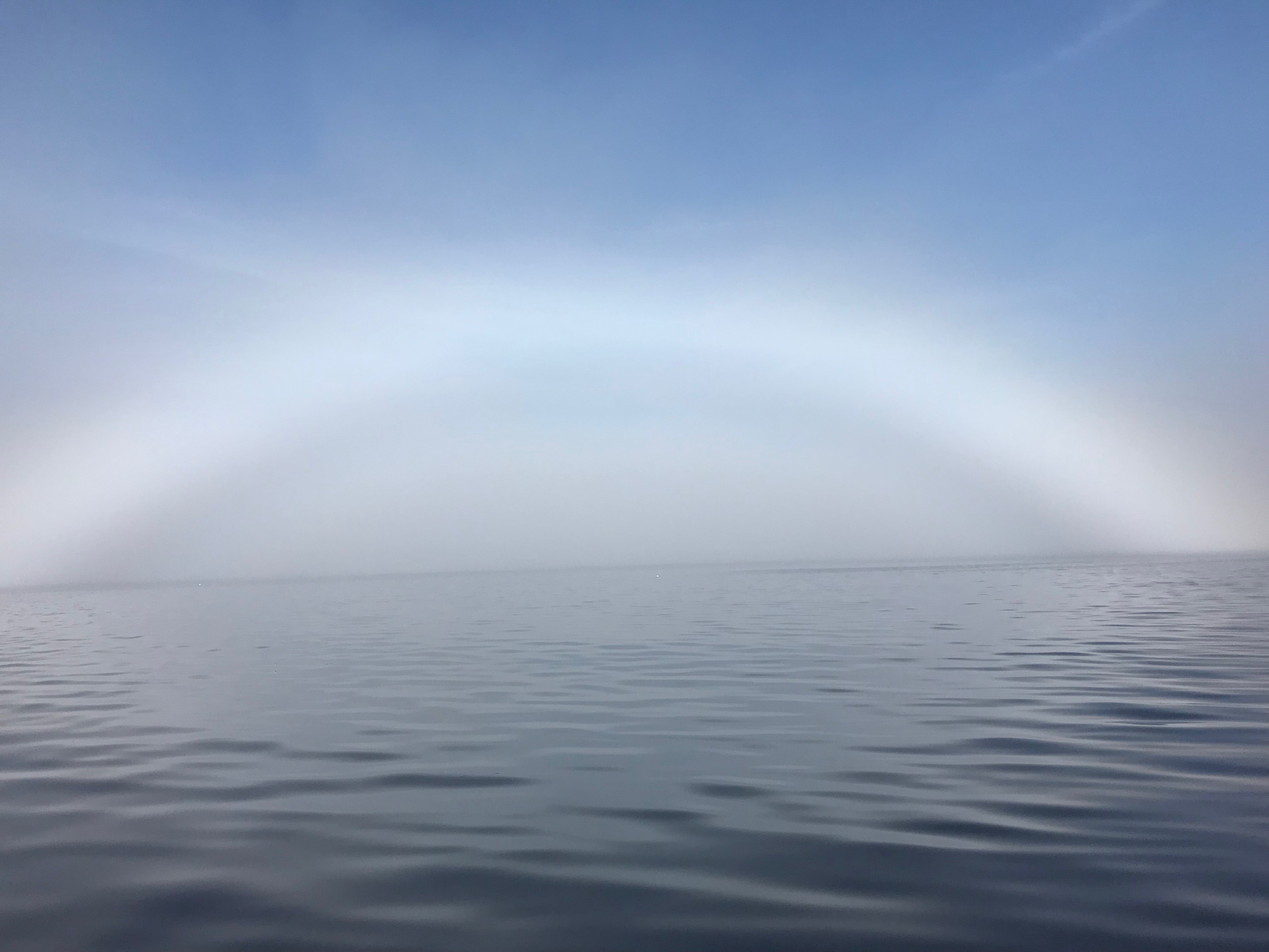 Taken around 2pm on a day where the fog really never burned off. We were fishing along the coastline in the Gulf of Mexico, just east of where the Suwannee River meets the Gulf of Mexico.